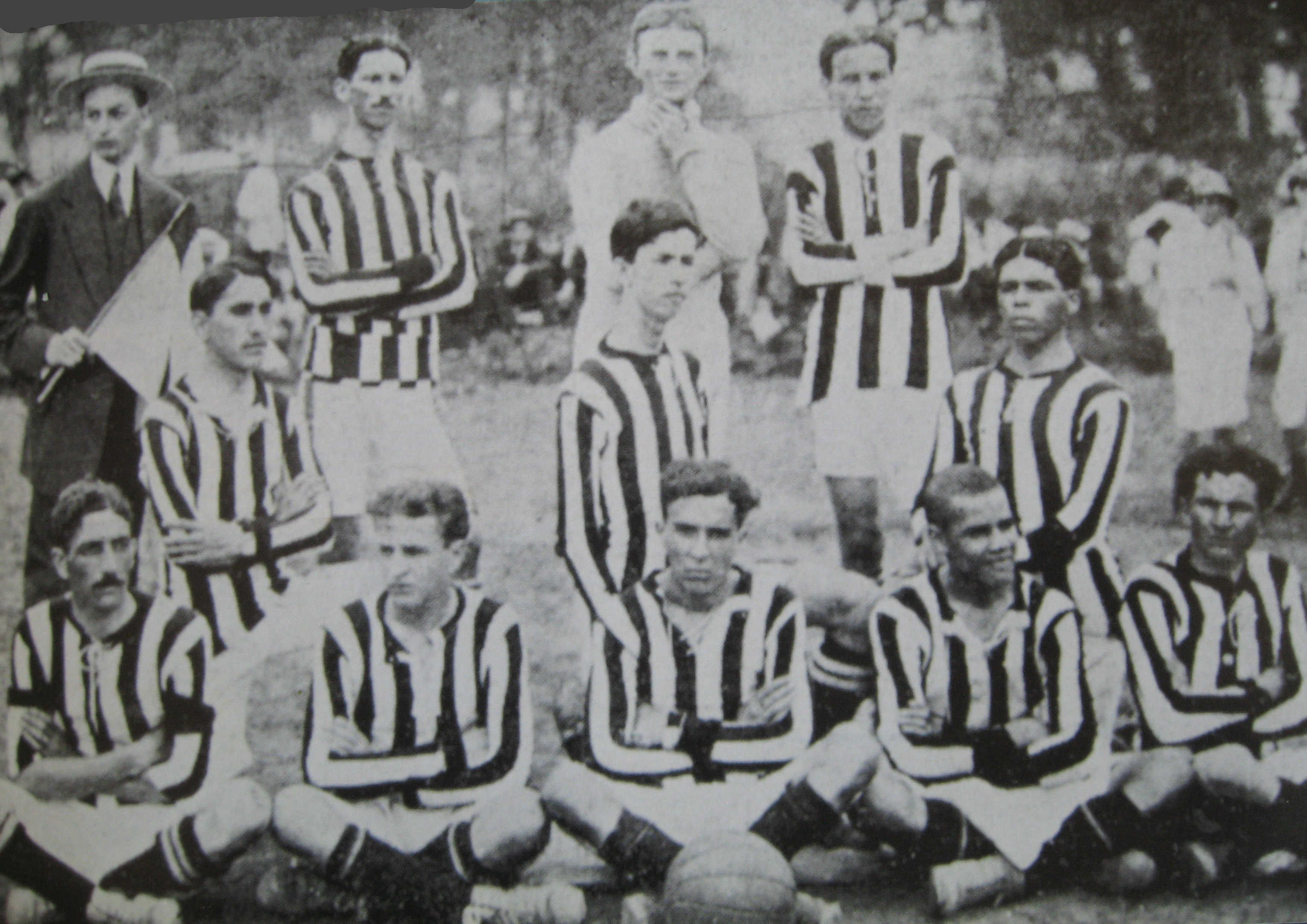 First night game of Santos FBC